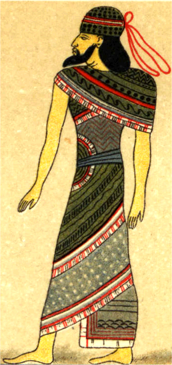 Assyrian (1400 BC)